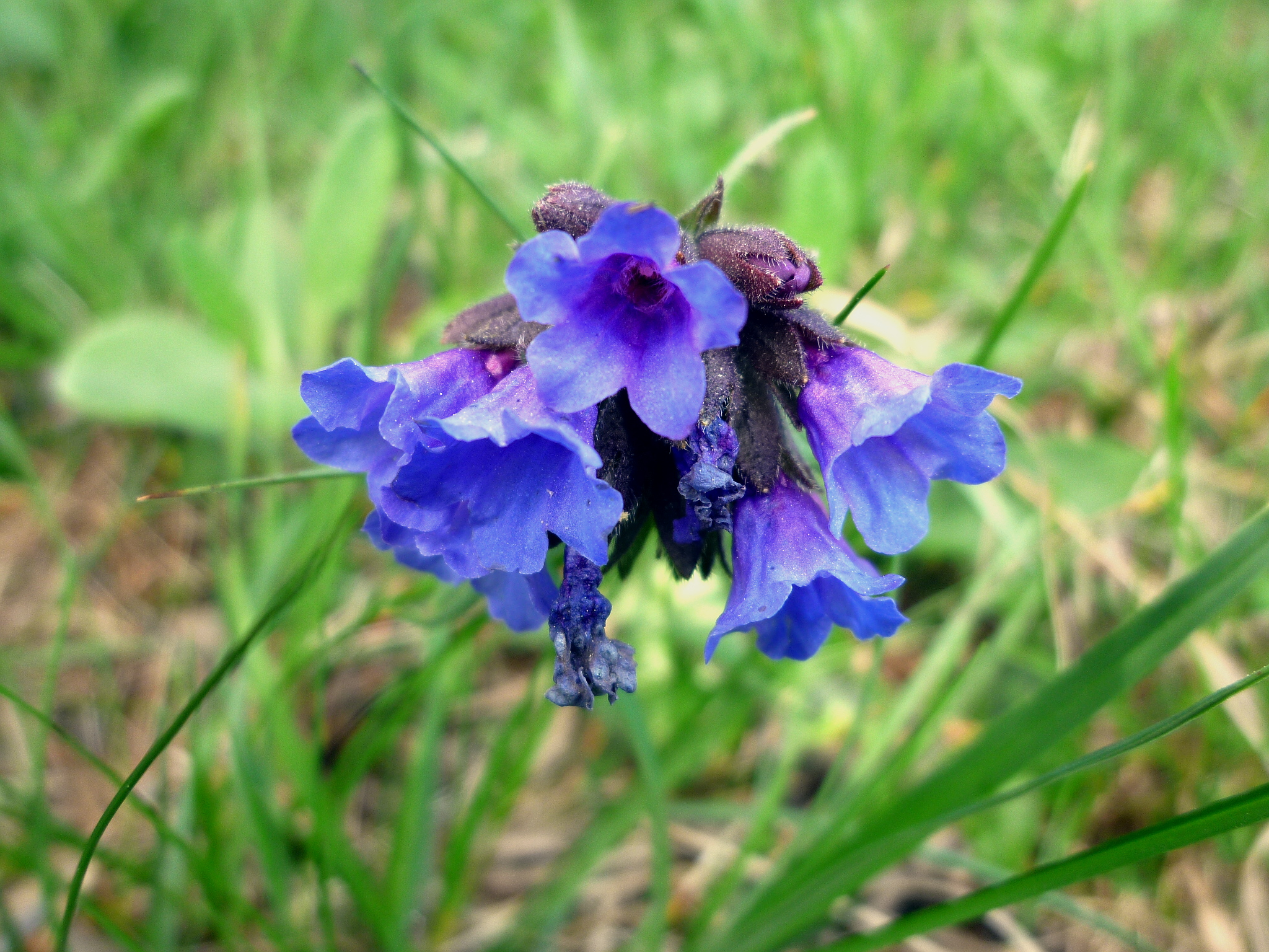 Pulmonaria longifolia. In Fígols (Berguedà-Catalunya). To 1.670 m. altitude